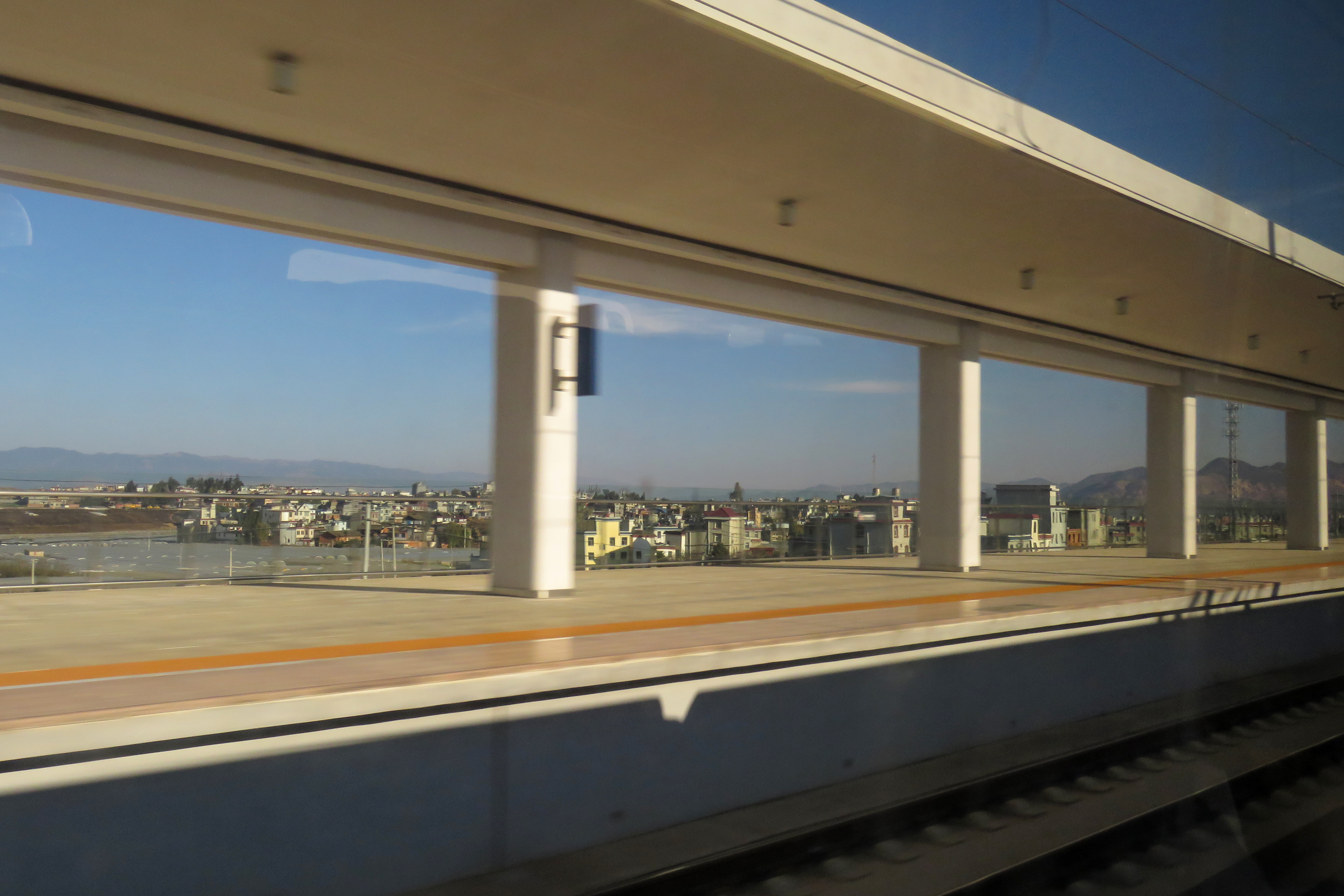 Few trains stop here.